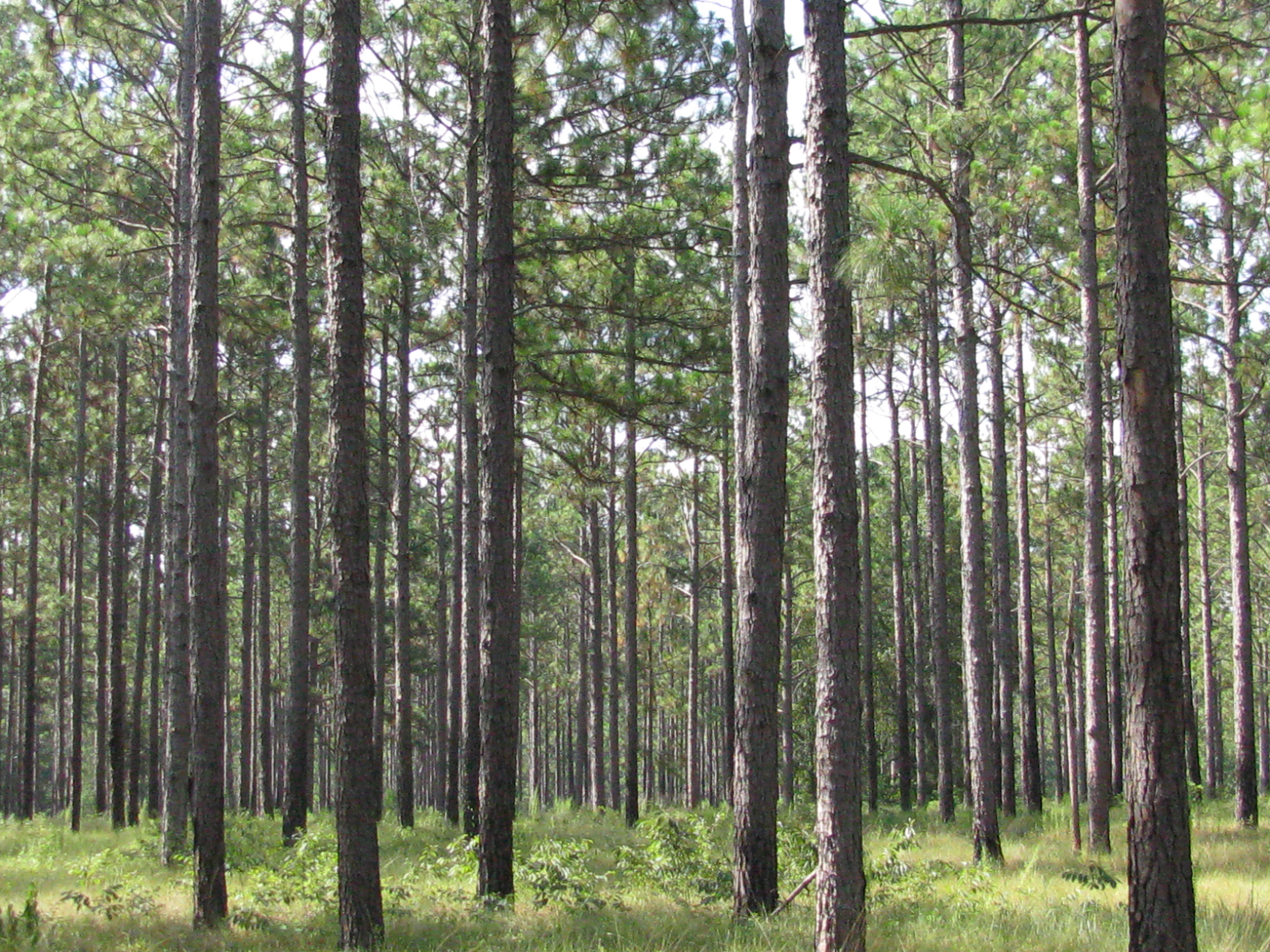 Pinus palustris (Longleaf Pine) forest, along the Flint River in Georgia.